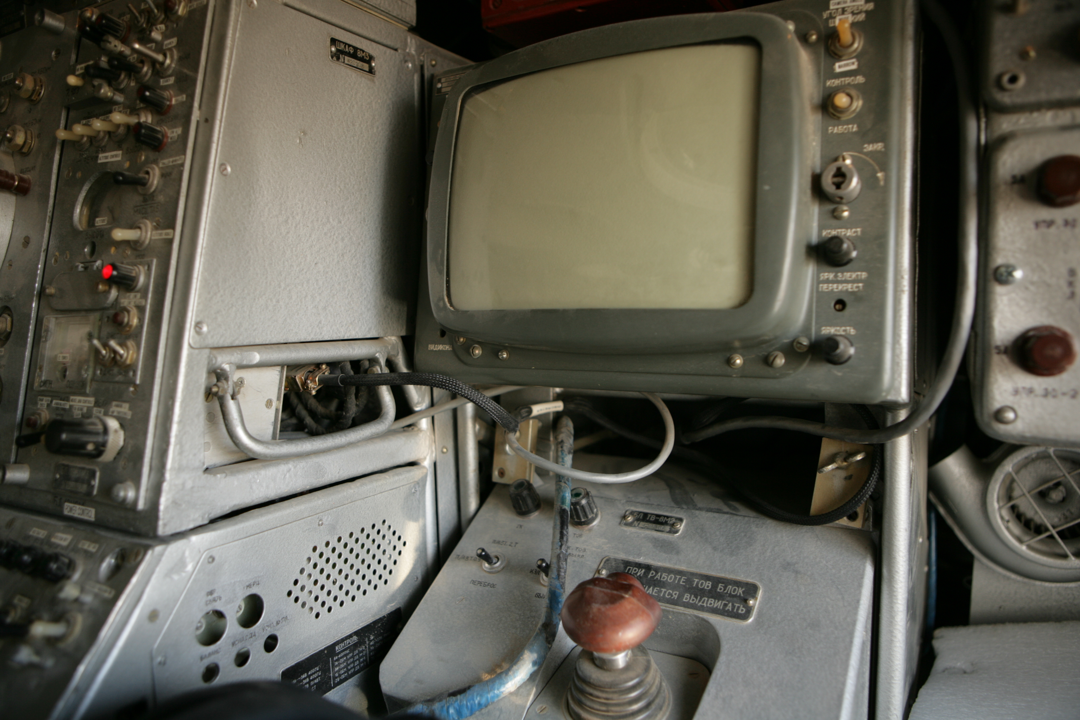 A monitor and control equipment are inside a former Soviet ZRK-SD Kub Straight Flush radar system parked at Marine Corps Air Station Yuma, Ariz., April 3, 2010.